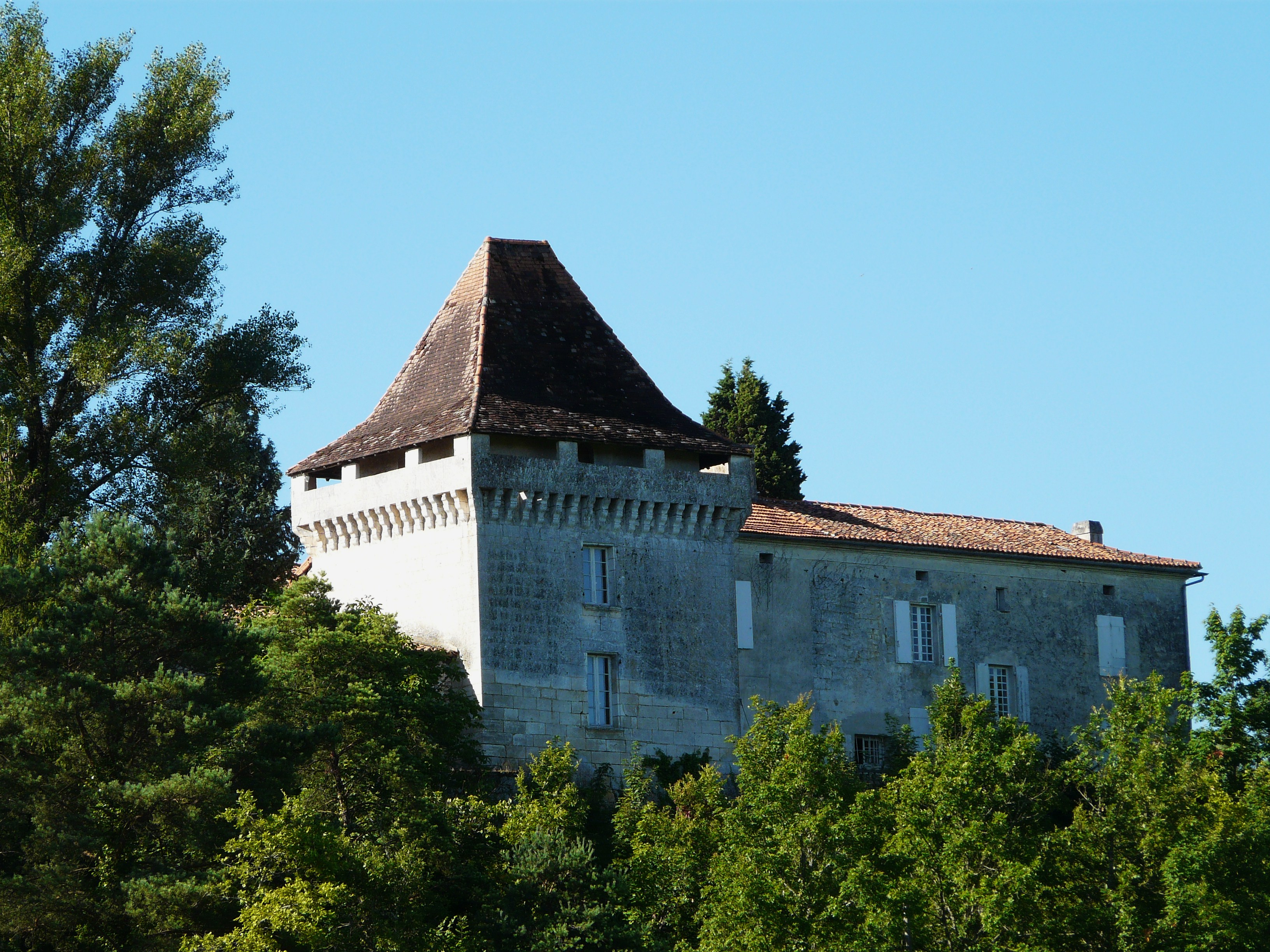 Castle of Chanet at Vieux-Mareuil, Dordogne, France.